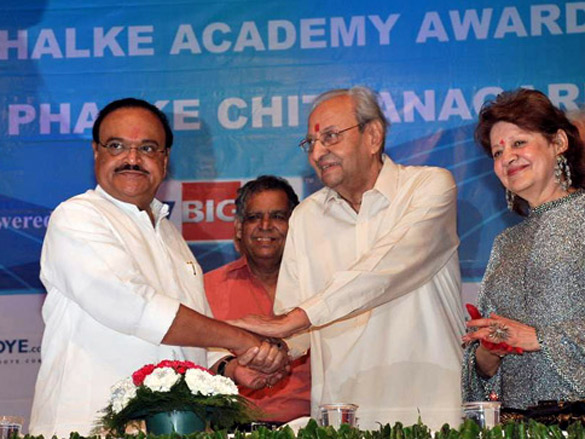 Politician Chhagan Bhujbal and actor Pran at the Dada Saheb Phalke Academy Awards, 2010